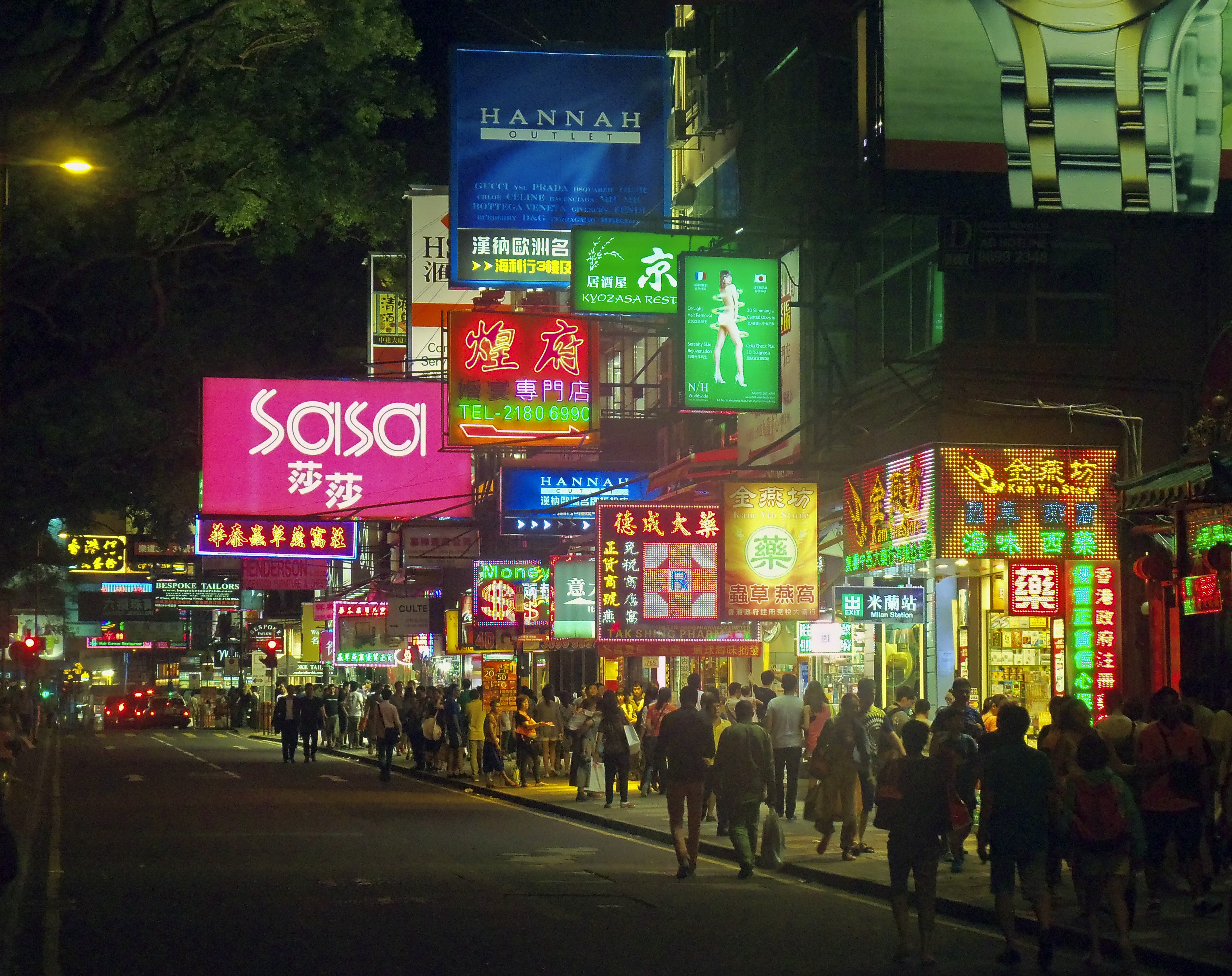 Haiphong Road in Tsim Sha Tsui, Kowloon, Hong Kong, at night looking east from near the Kowloon Park Drive overpass.